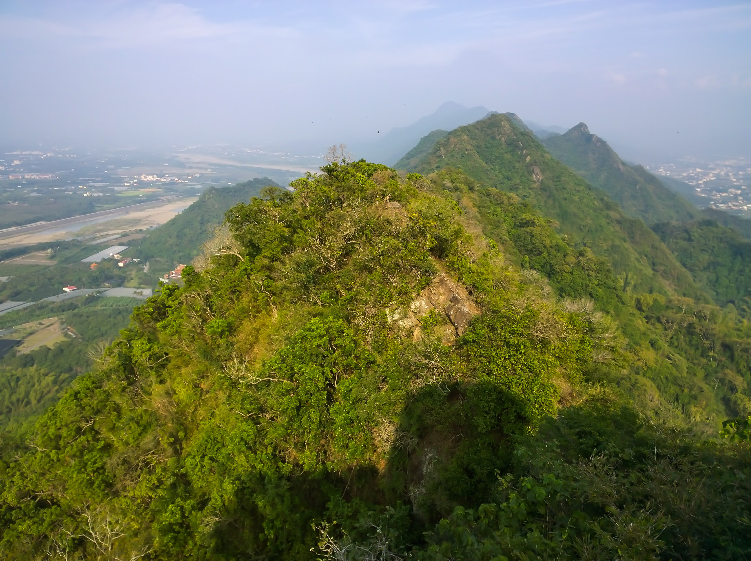 Narrow ridge between Mt Qiwei and Mt Yueguang. The view is northeast from Mt Qiwei.